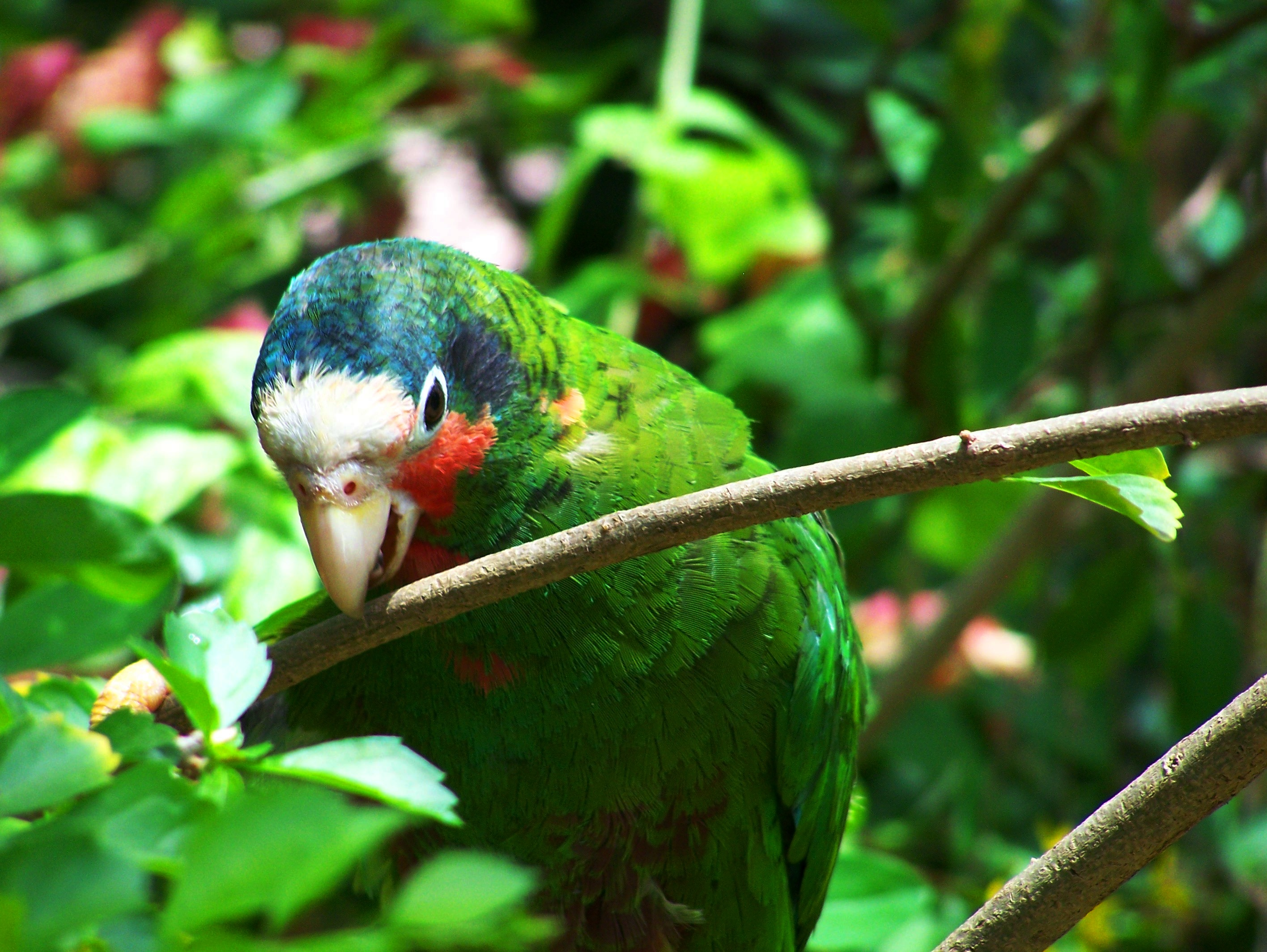 Cuban Amazon Parrot - Grand Cayman Island